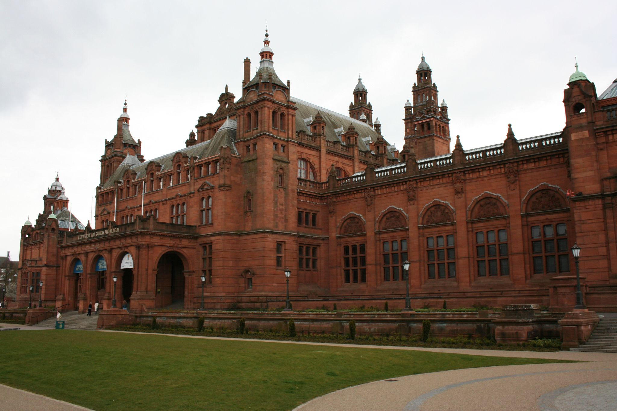 Front elevation of Kelvingrove Art Gallery and Museum (Glasgow), looking west.